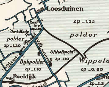 Uithofspolder